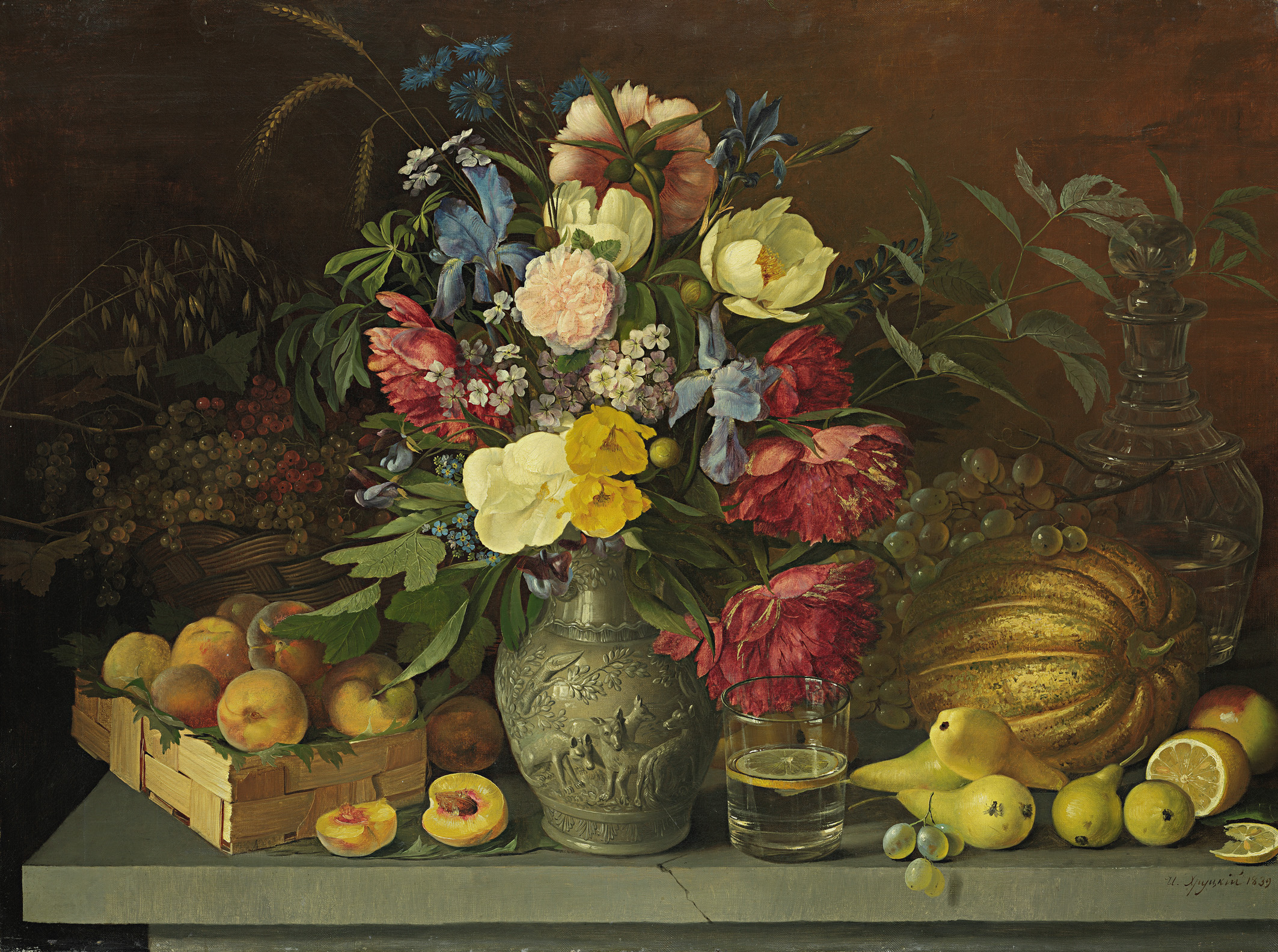 Flowers and fruits